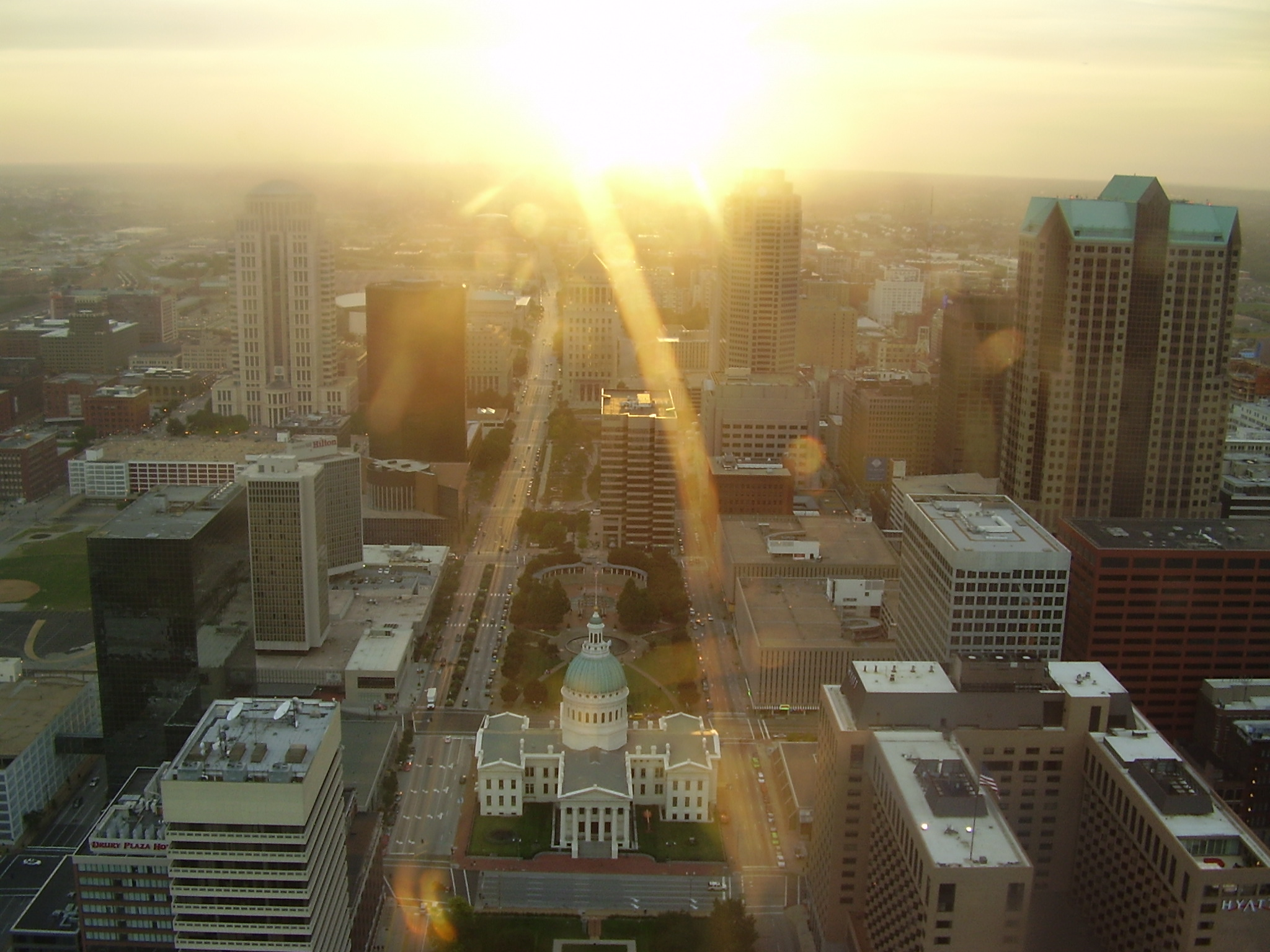 Sun glare at sunset looking west to St. Louis downtown, from the observation room at the Gateway Arch.